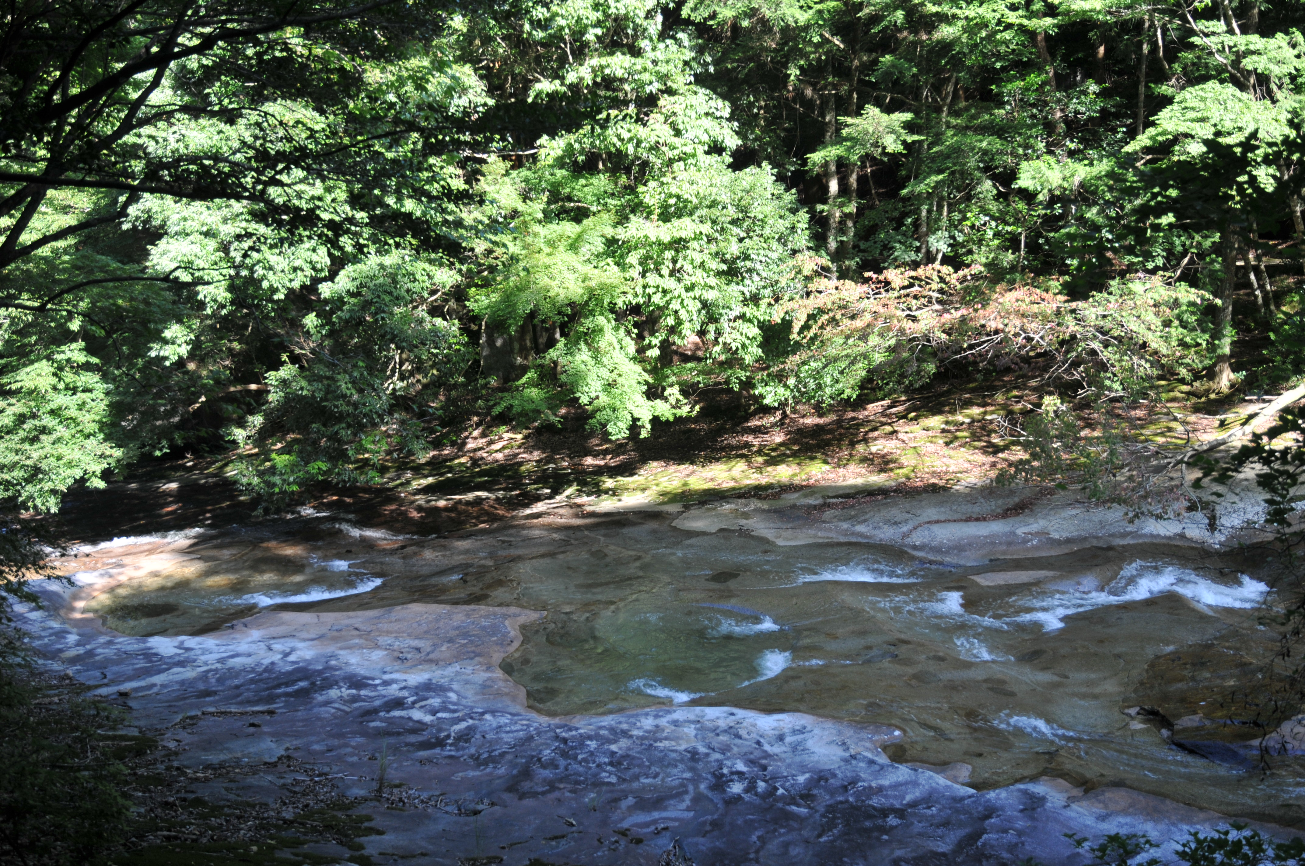 Nametoko Ravine